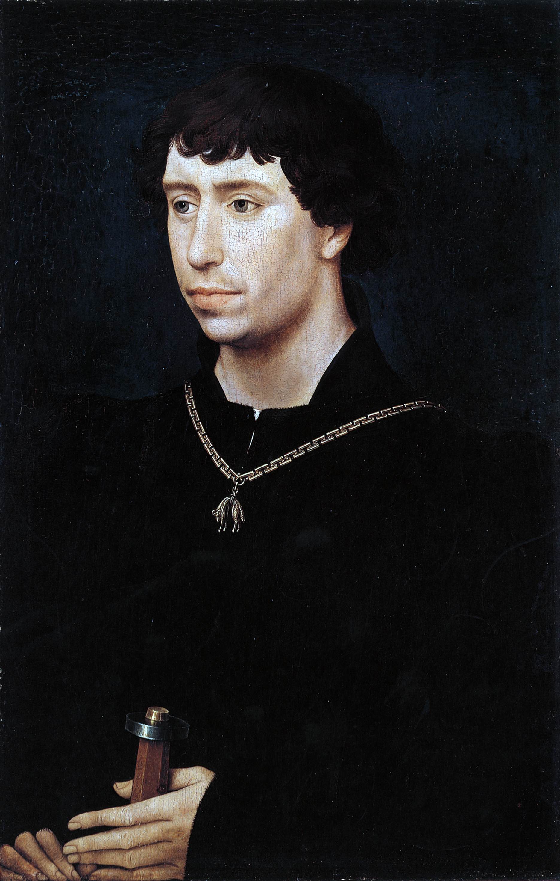 Charles the Bold, duke of Burgundy, here around 1460 as Count of Charolais